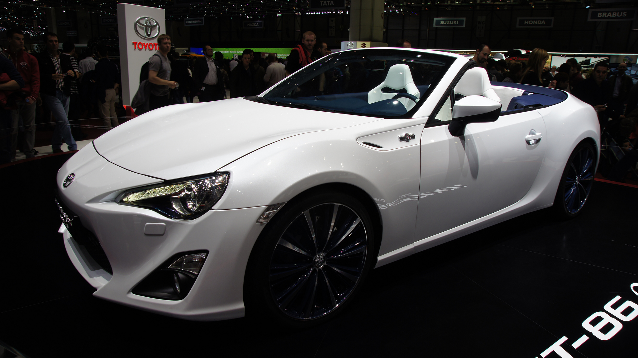 Toyota FT-86 Open Concept